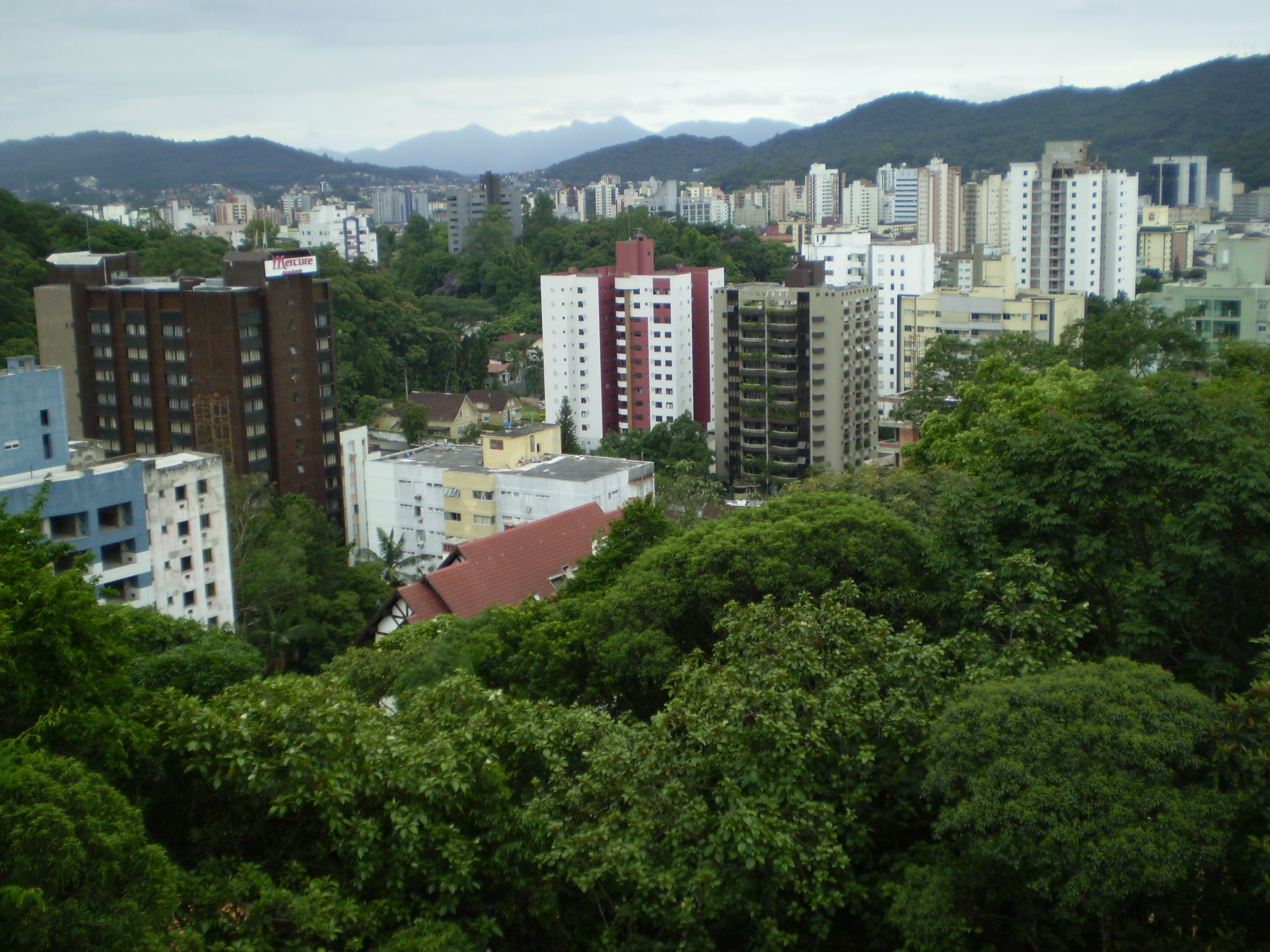 Downtown Joinville. taken from an inner city appartment, Joinville.